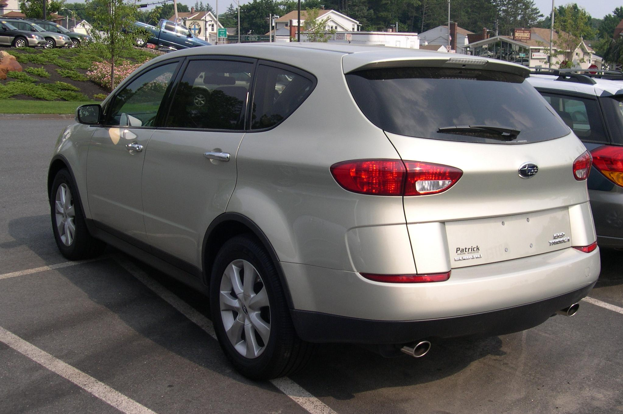 2005 Subaru B9 Tribeca Source: Photo by User:Sfoskett